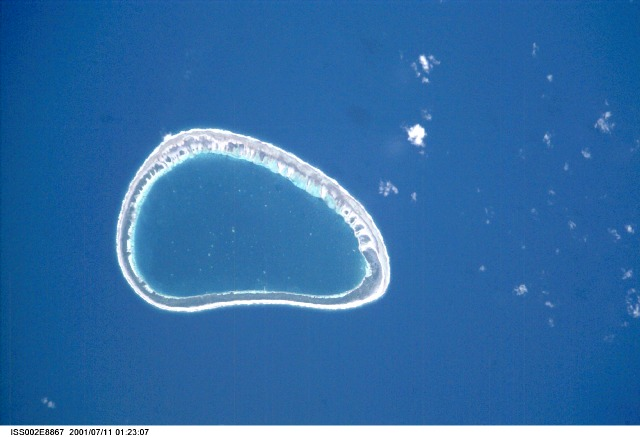 NASA astronaut image of Nihiru Atoll (Tuamotu Archipelago, French Polynesia) in the Pacific Ocean